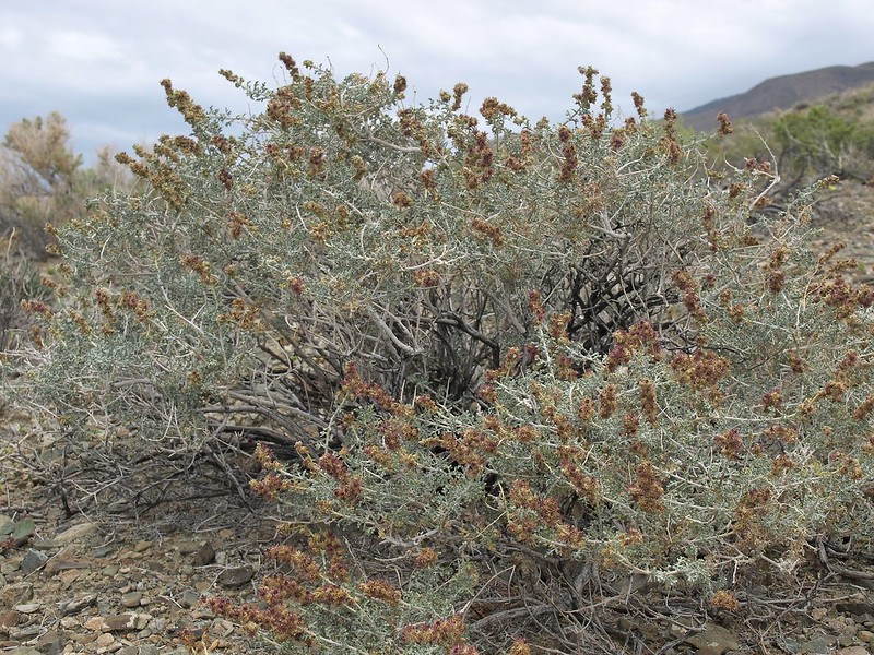 Encelia farinosa is an example of Microphyllous Drought Deciduous Plant Species